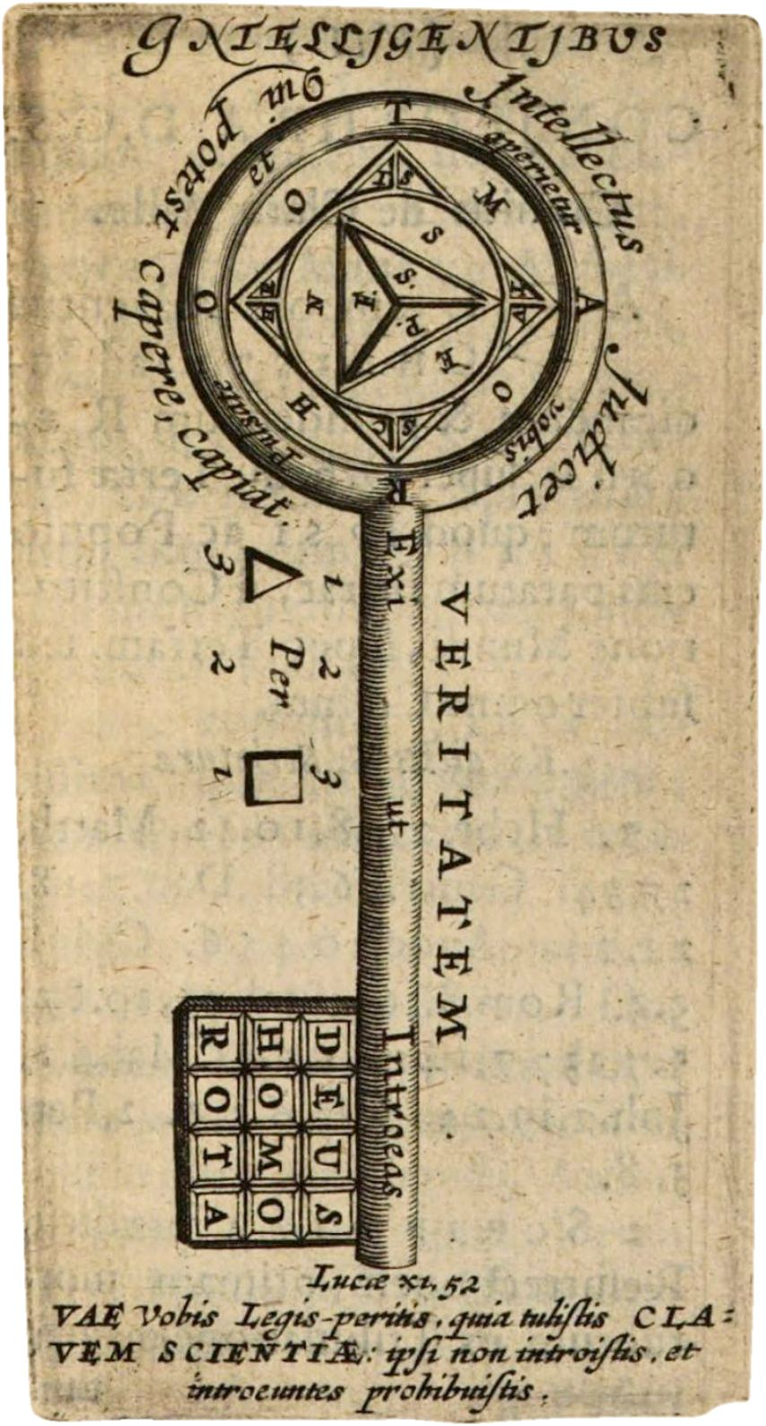 This illustration first appears in the 1646 edition of Guillaume Postel's Absconditorum a constitutione mundi clavis, a text originally published in 1547. Postel's 17th-century editor, Abraham von Franckenberg, thought that the work was too obscure and added an explanatory appendix, along with this diagram which he playfully termed, "The Editor’s Key to the Author’s Key". Two centuries later, Éliphas Lévi claimed that this diagram somehow referred to Tarot, and that it thereby demonstrated that the playing cards had been connected with Qabalah in the 16th century.